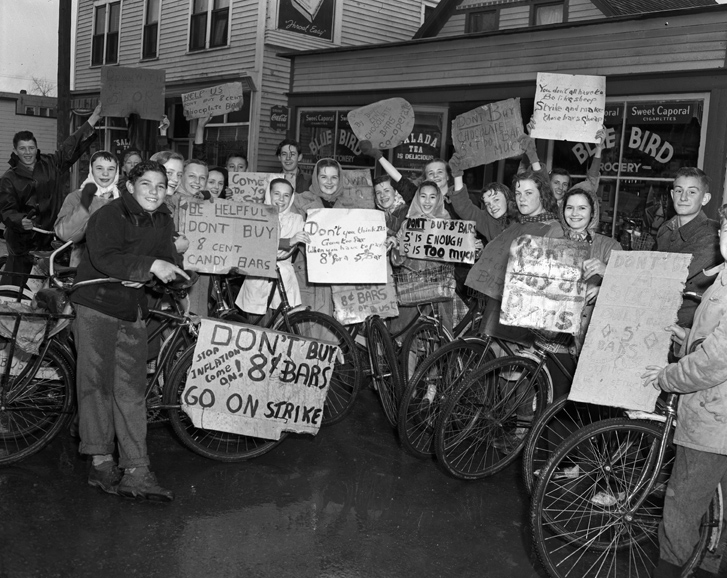 Children protest in Edmonton, Alberta during the 1947 candy bar protest.